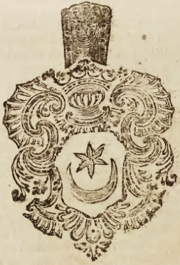 Leliwa coat of arms by Stanisław Duńczewski, 1757